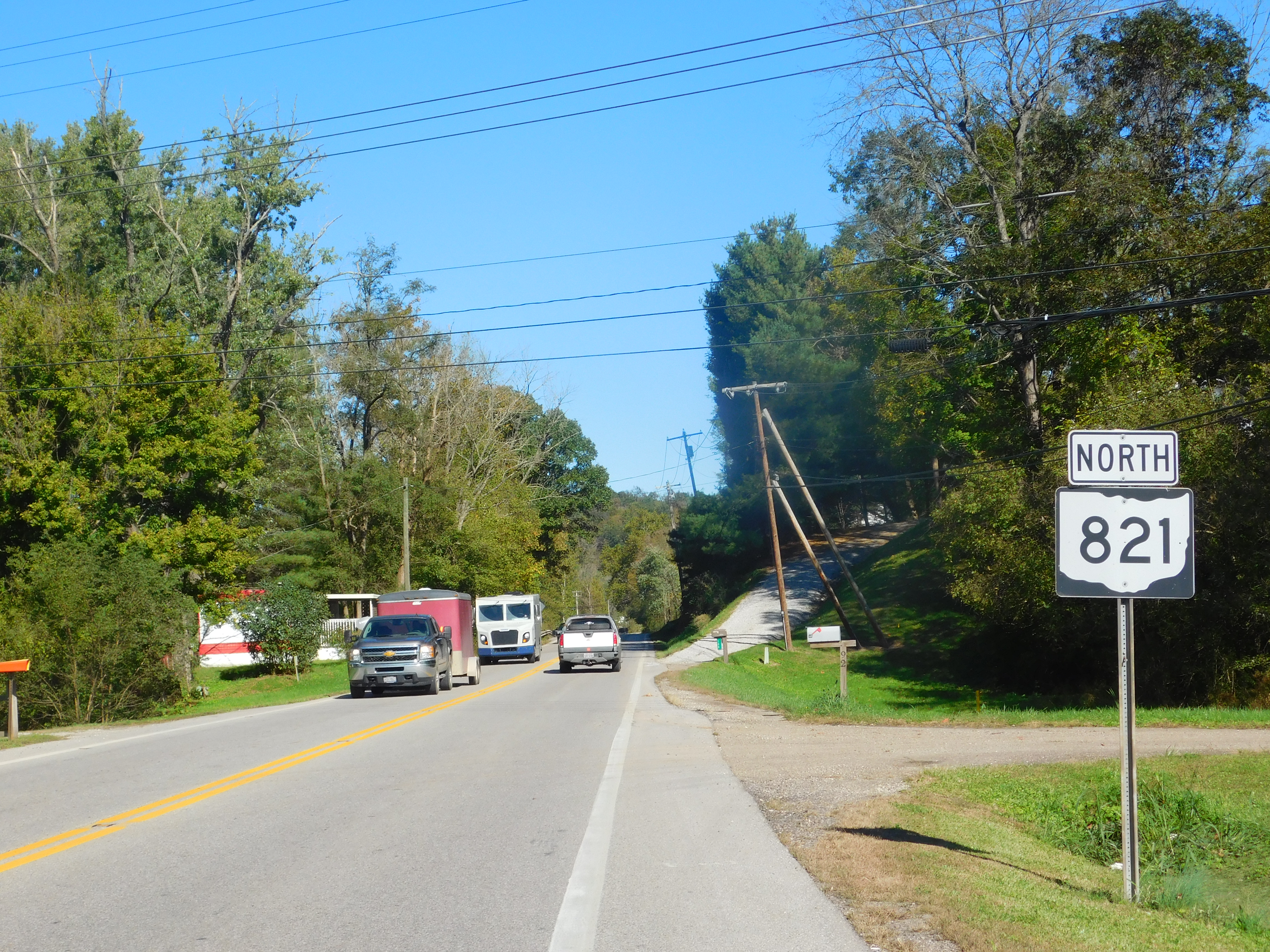 Ohio State Route 821 northbound in Muskingum Township, Ohio.